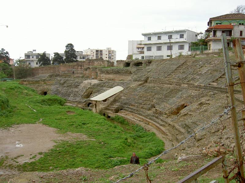 The amphitheatre of Durrës, Albania.